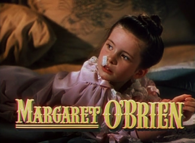 Cropped screenshot of Margaret O'Brien from the trailer for the film Meet Me in St. Louis.